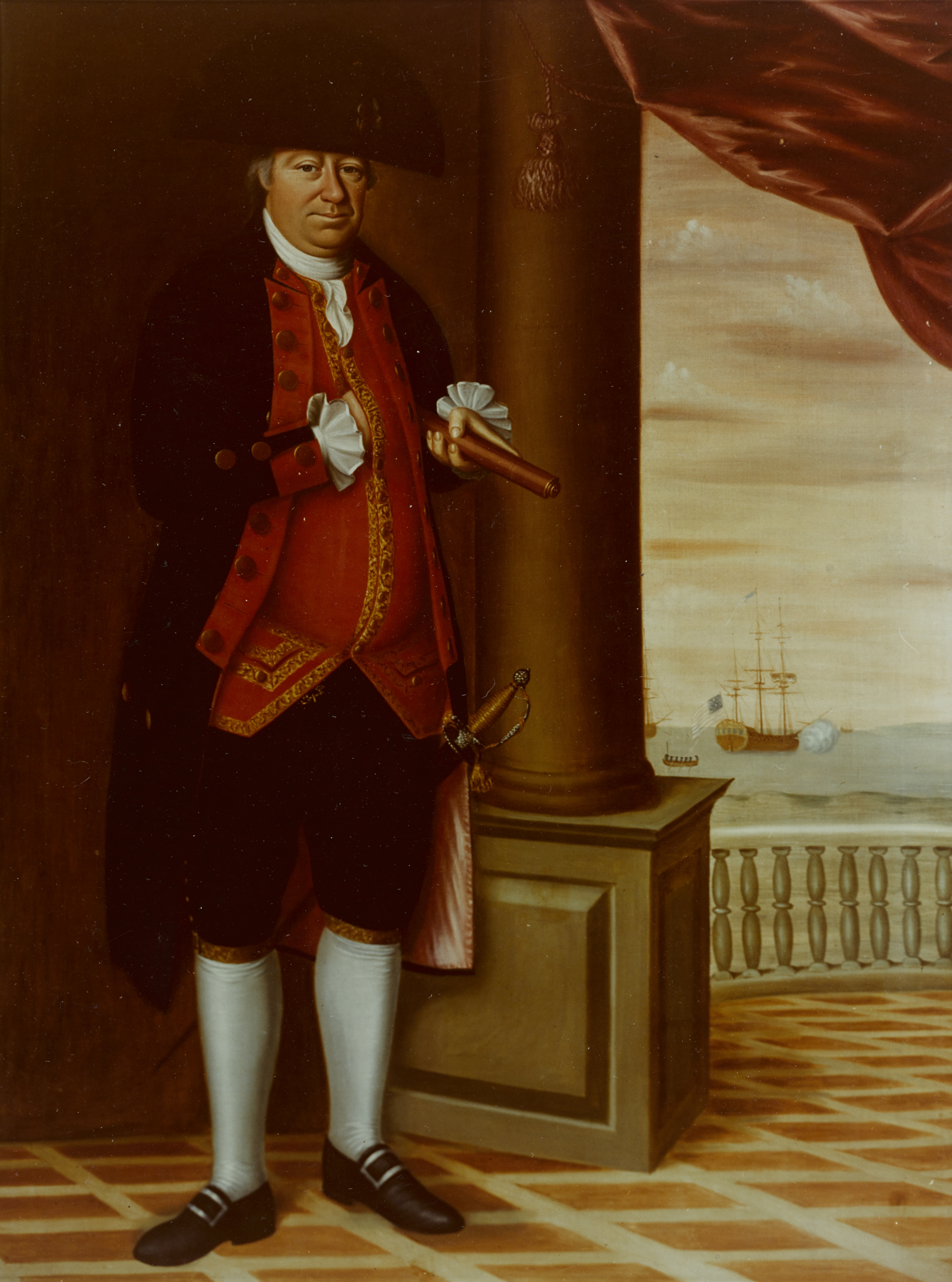 Commodore Abraham Whipple, by Edward Savage, oil on canvas, 1786. Public domain photo image from the USA Dept of the Navy, Naval Historical Center, Photo #: KN-10876. ColWilliam 01:15, 13 September 2007 (UTC)